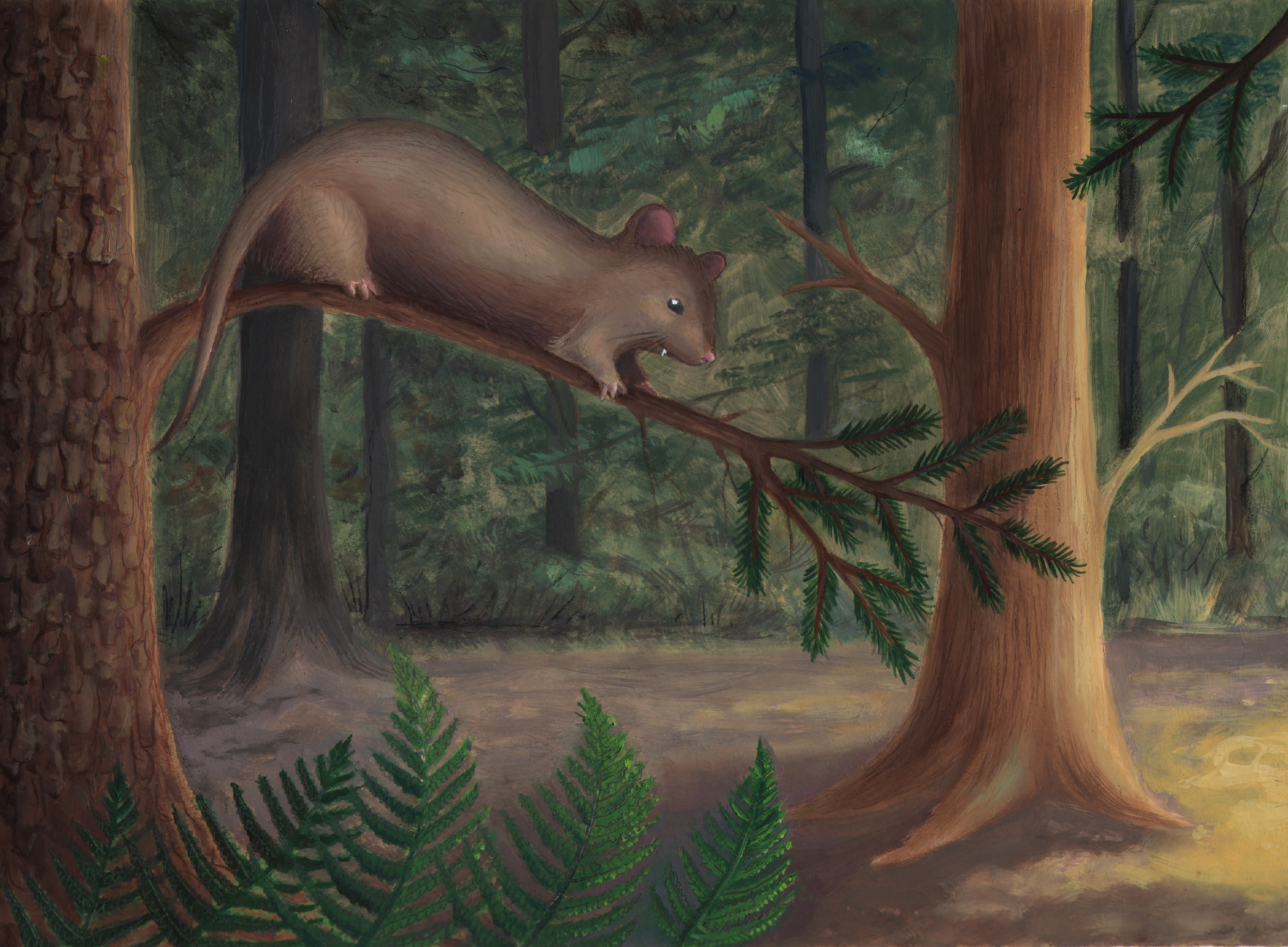 Scientific illustration of Alphadon, an extinct mammal from the Late Cretaceous. The animal has been portrayed in an environment with conifers and fern undergrowth, typical of this period. Illustration with oil made with the advice of Alistair Ian Spearing Ortiz, scientific translator. This image was provided to Wikimedia Commons as a contribution from an Art&Design School thanks of a collaboration between Llotja and Amical Wikimedia.